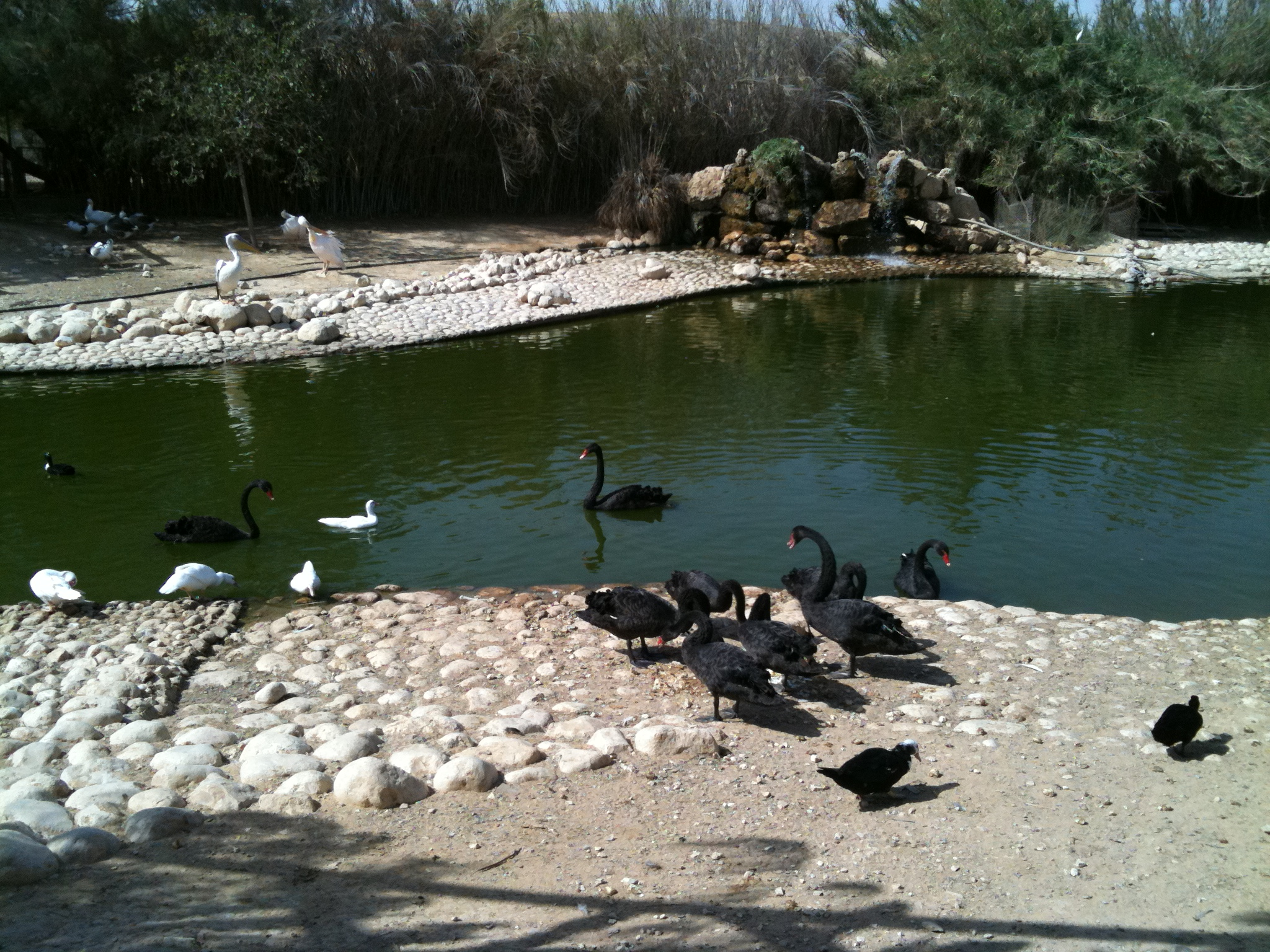 Negev Zoo Beersheva Israel